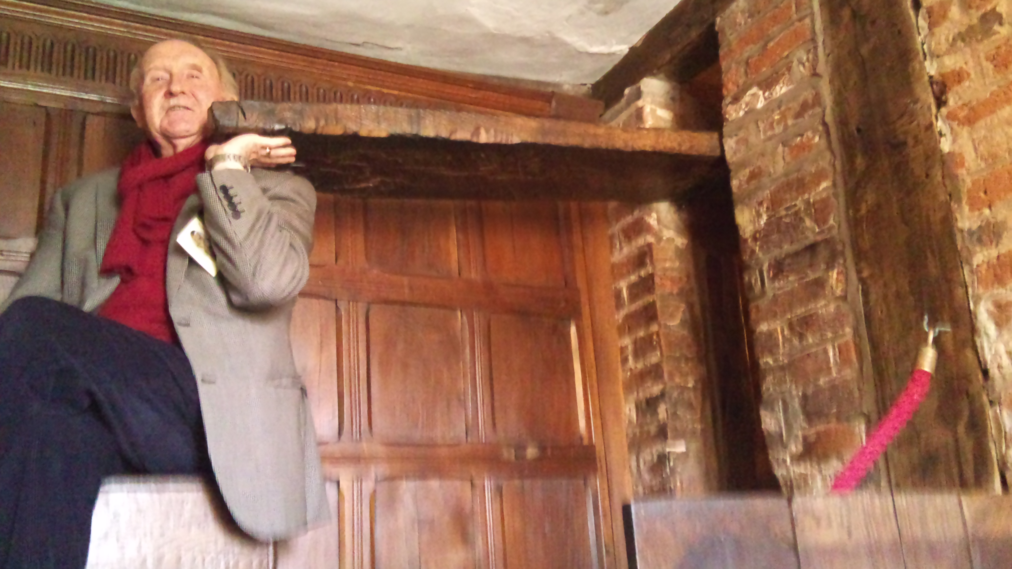 An entrance to "priest hole" (hiding) in Dr. Dodd's library in 16th c. manor house, Havrington Hall, Worcestershire,UK. It was made by St Nicholas Owen ("Little John")